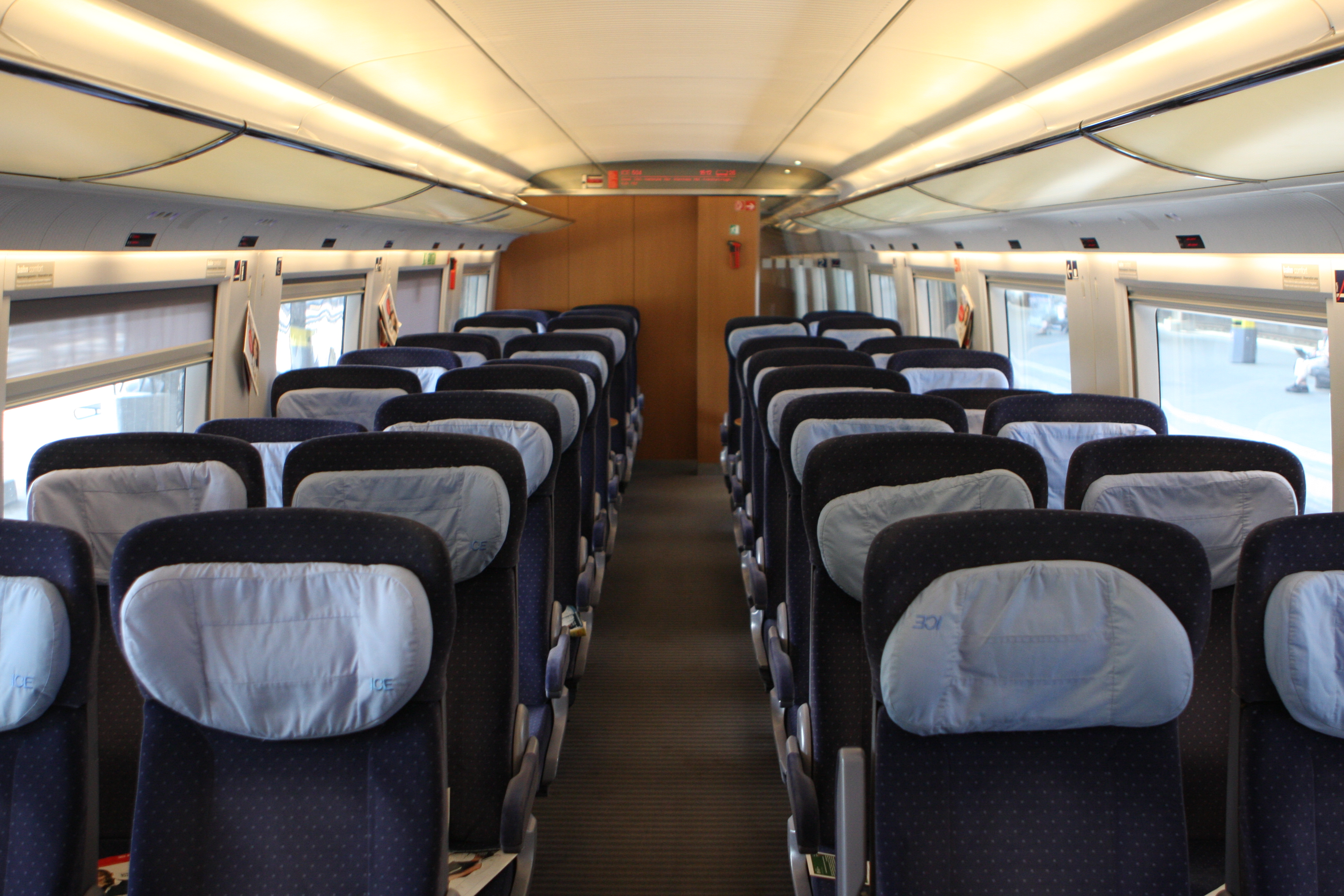 ICE3 2.class